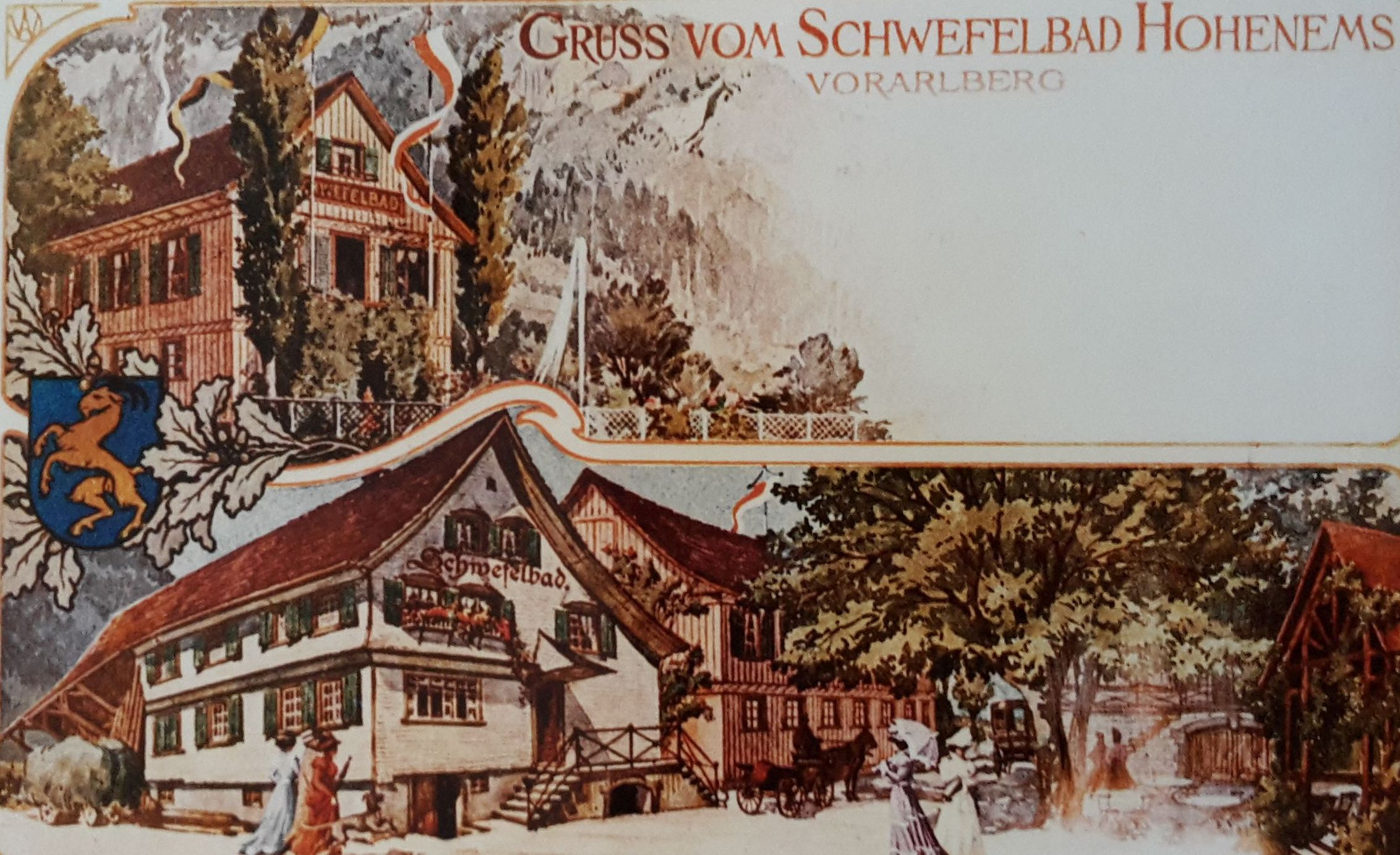 Old postcard of the sulfur bath in Hohenems, Vorarlberg, Austria, about 1898th